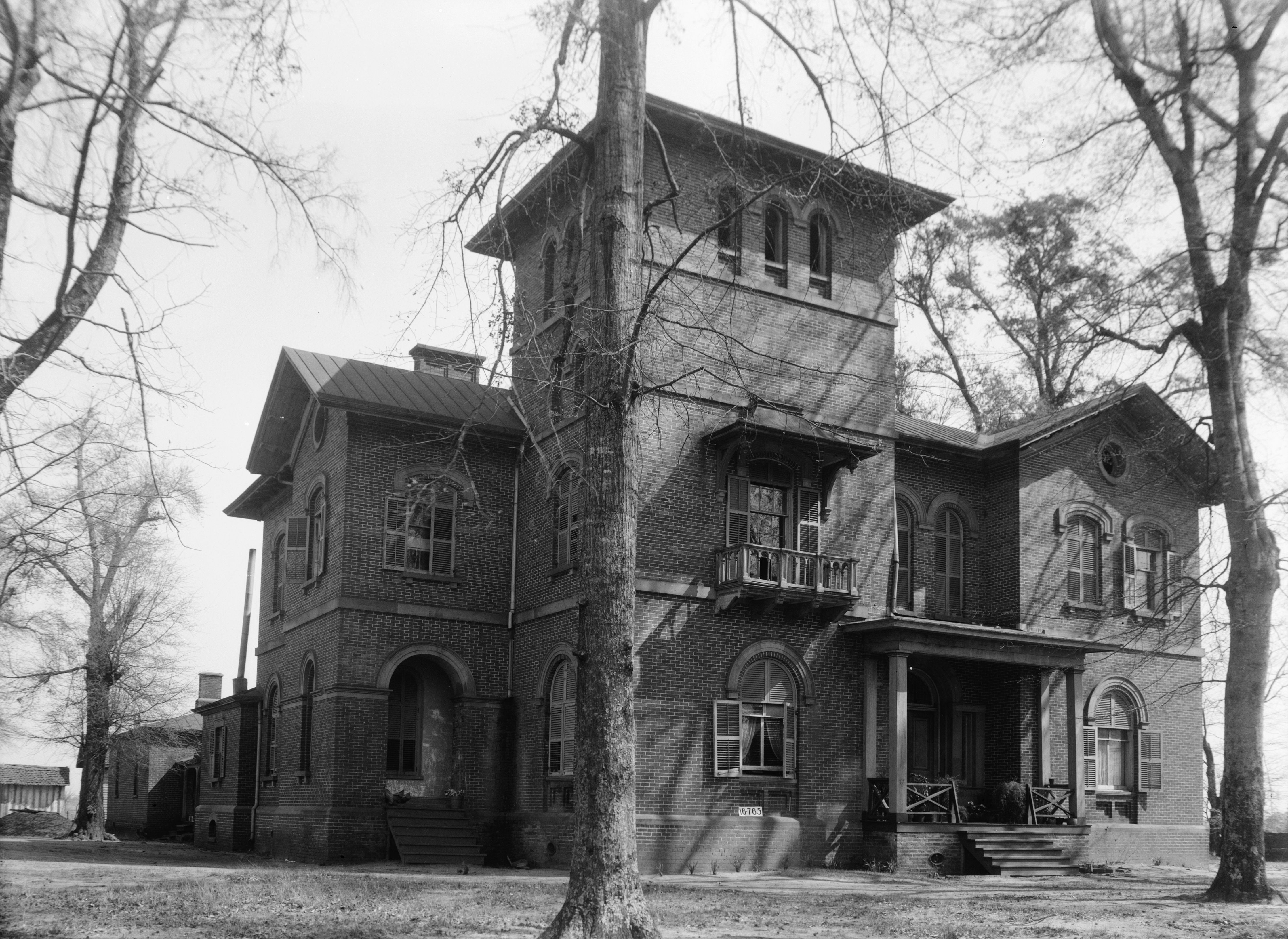 Kenworthy Hall, State Highway 14 (Greensboro Road), Marion, Perry County, AL. FRONT VIEW.